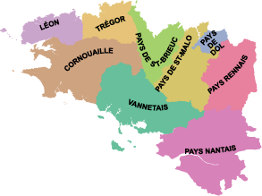 Historical countries of Brittany